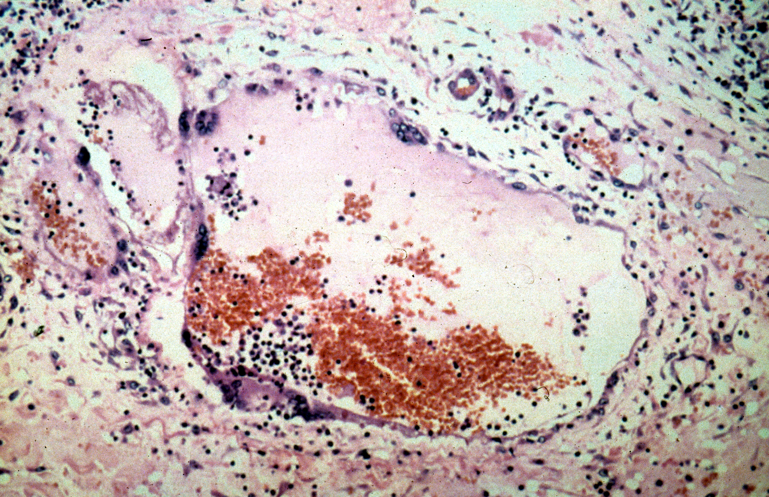 In 1998-99, an outbreak of a previously unrecorded viral disease killed more than 100 people in Malaysia. These people had become infected from a widespread epidemic involving thousands of pigs, as well as some horses, dogs, cats, fruit bats (flying foxes) and goats.This slide shows Nipah virus in the blood vessel of a pig's lung. The giant cells (cells with many nuclei) on the lining of the blood vessel are caused by the virus.Image: Dr Peter Hooper, Australian Animal Health Laboratory (AAHL)